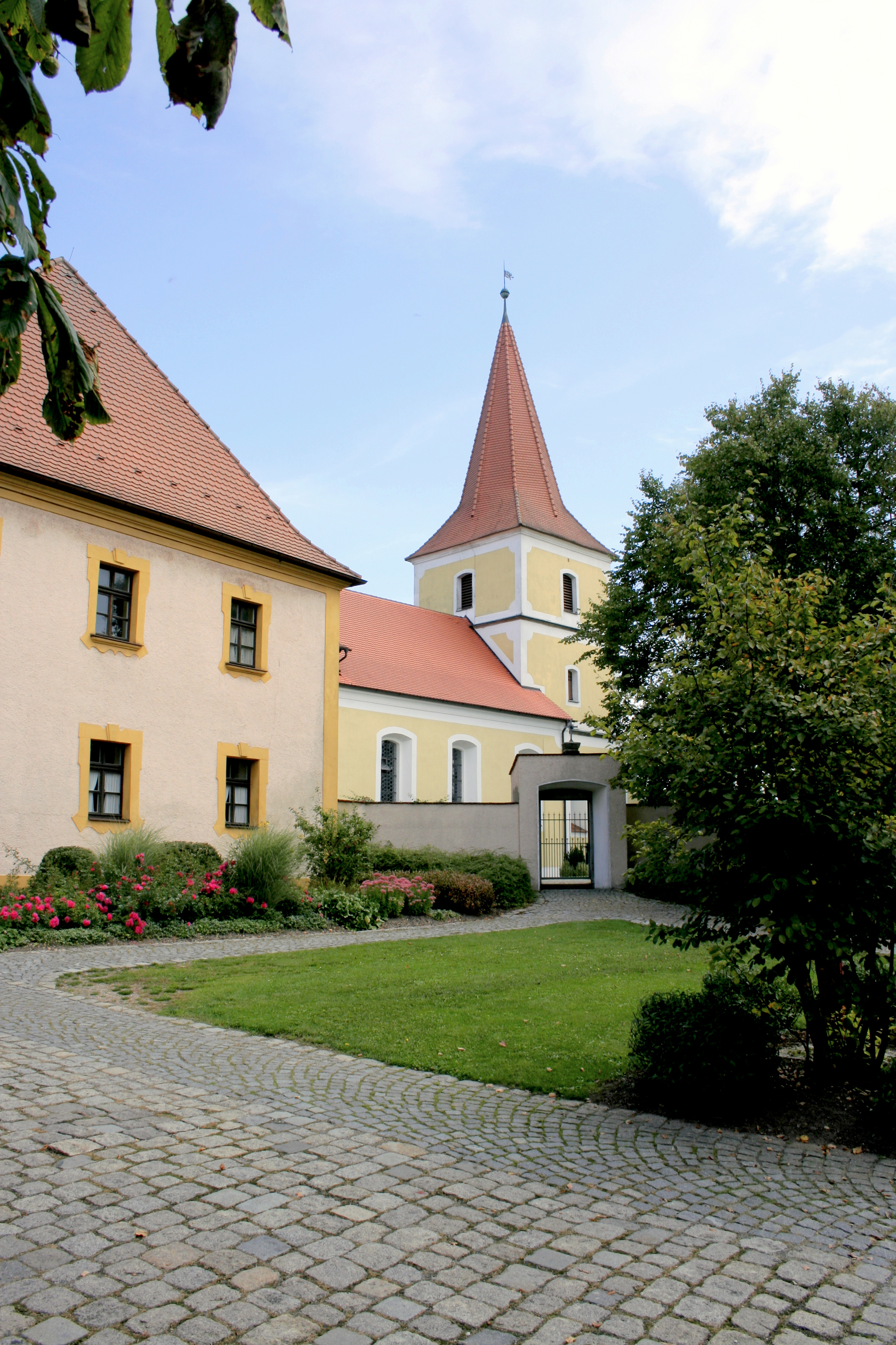 Heritage Building; Germany; Bavaria; Upper Palatinate; administrative district Weiden i.d.OPf; Neunkirchen protestant church St. Dionysius (D-3-63-000-155)This is a photograph of an architectural monument.